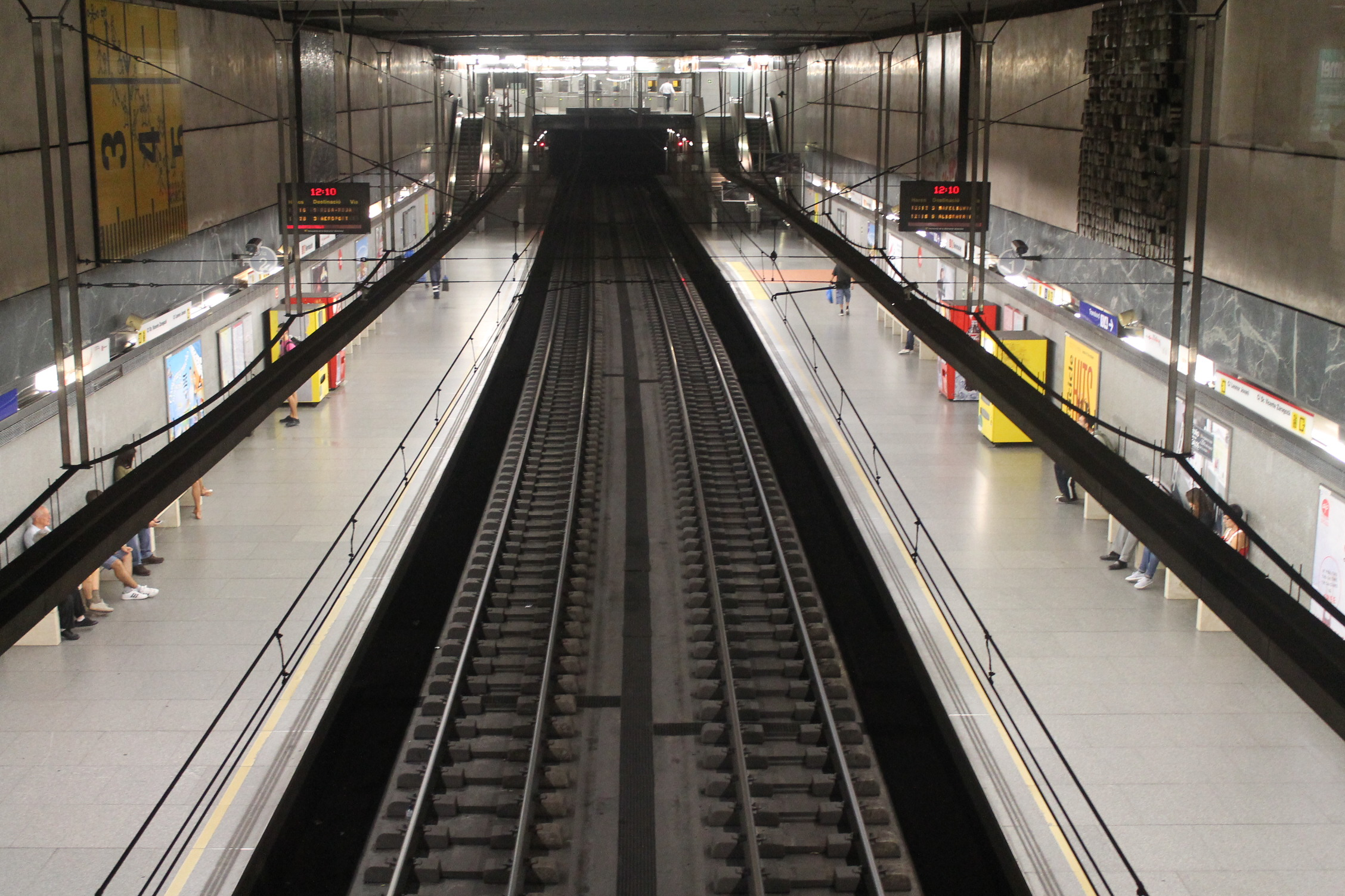 Underground platform of the Benimaclet station of Metrovalencia.